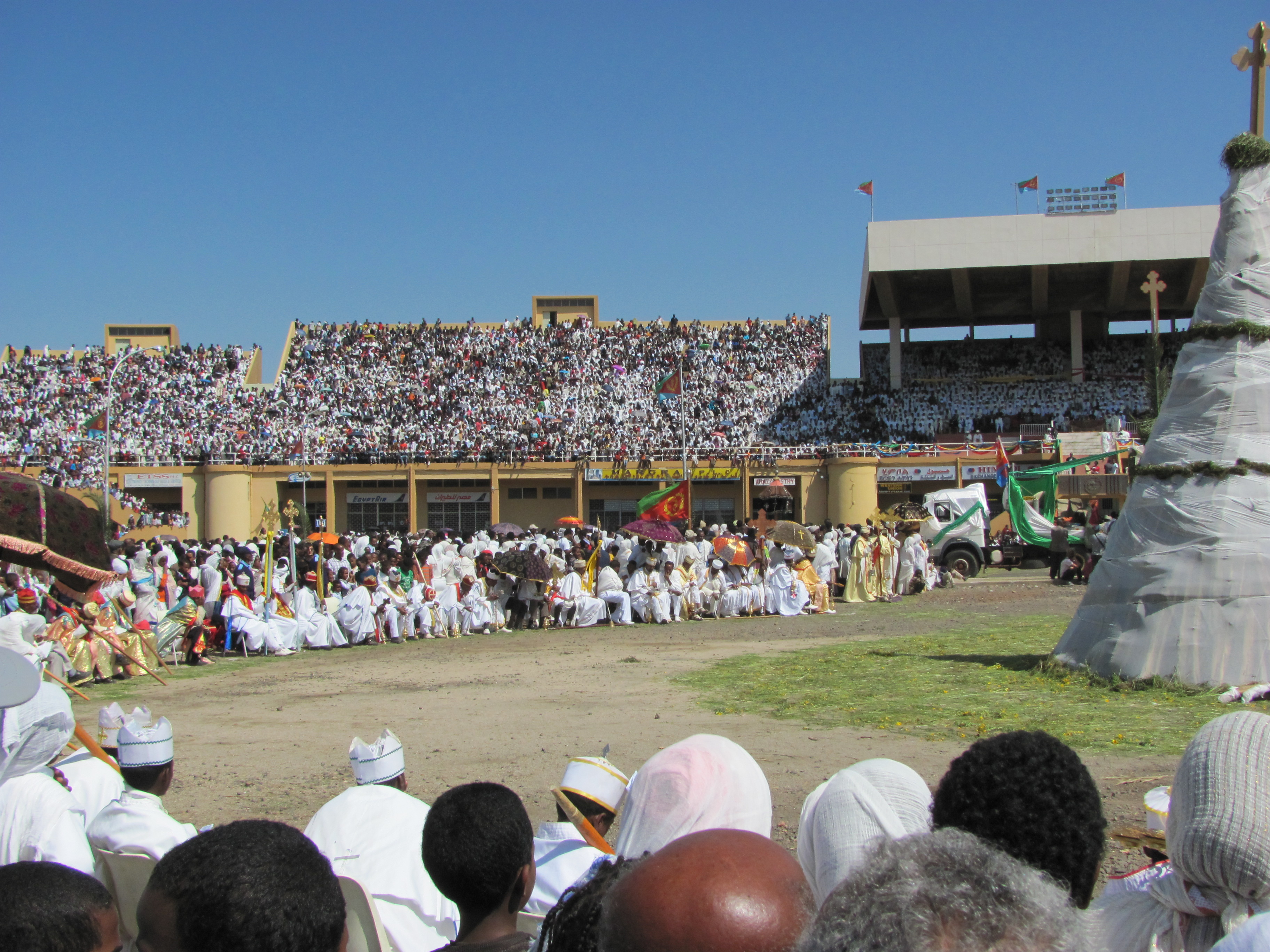 Festival of the finding of the true cross, Asmara